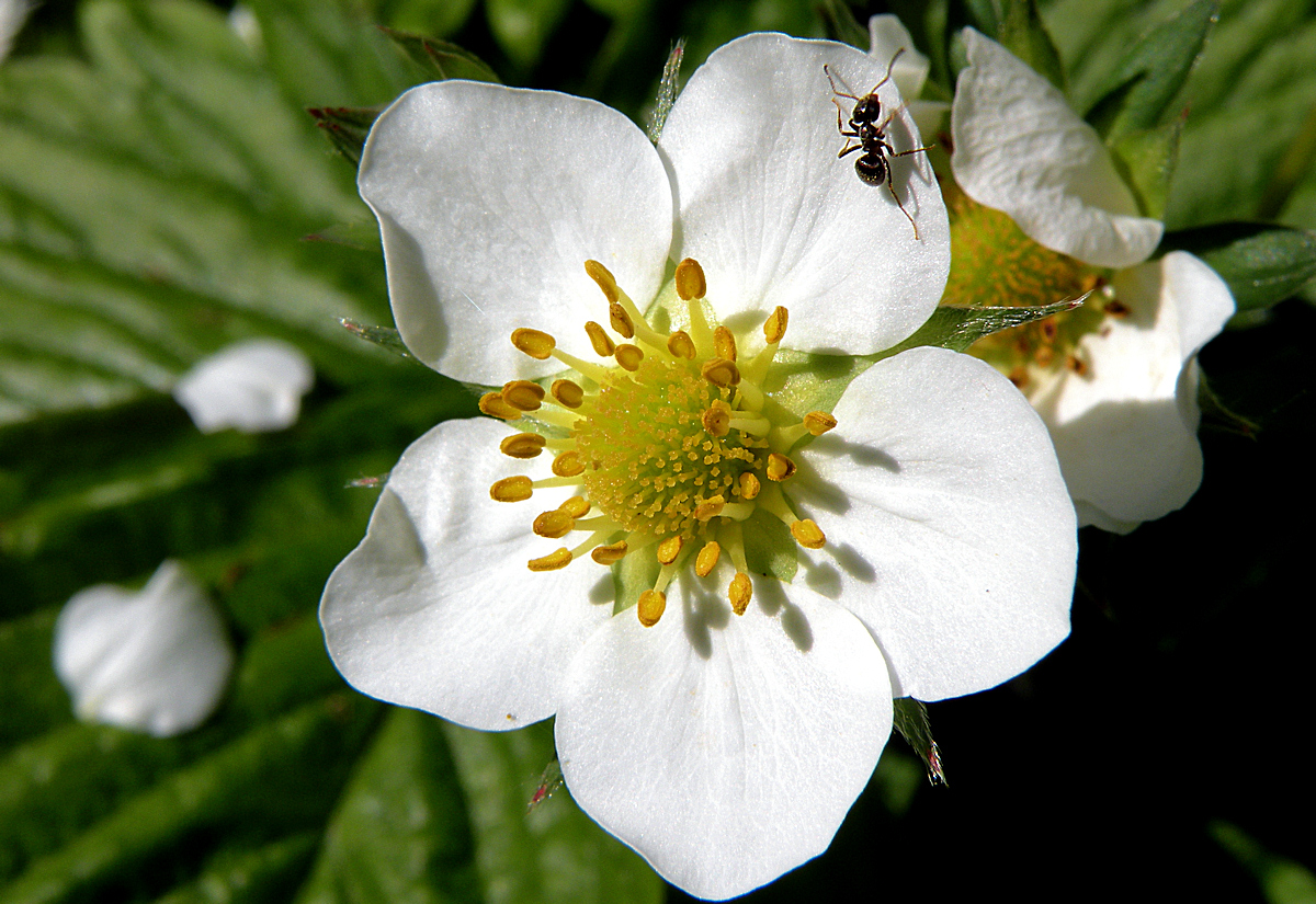 Strawberry flower with an insect on it.